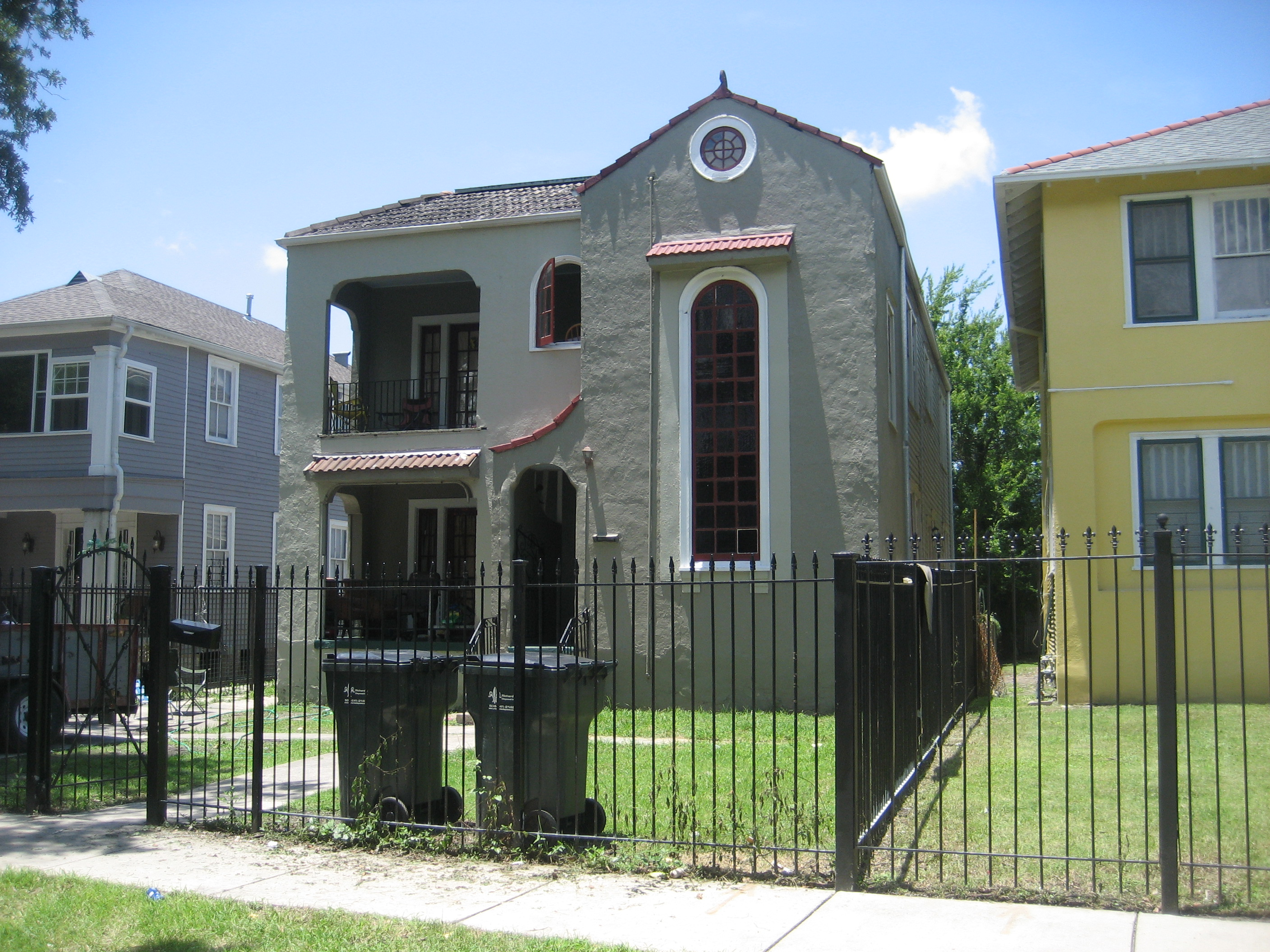 House at 3330 Louisiana Avenue Parkway, Broadmoor section of New Orleans. 3330 is the upstairs. Former residence of David Ferrie.